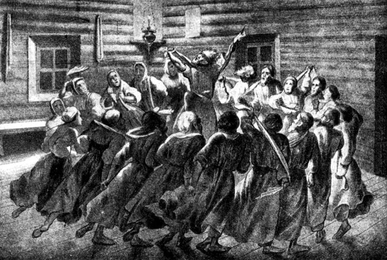 Ecstatic ritual of Khlysts (radeniye)